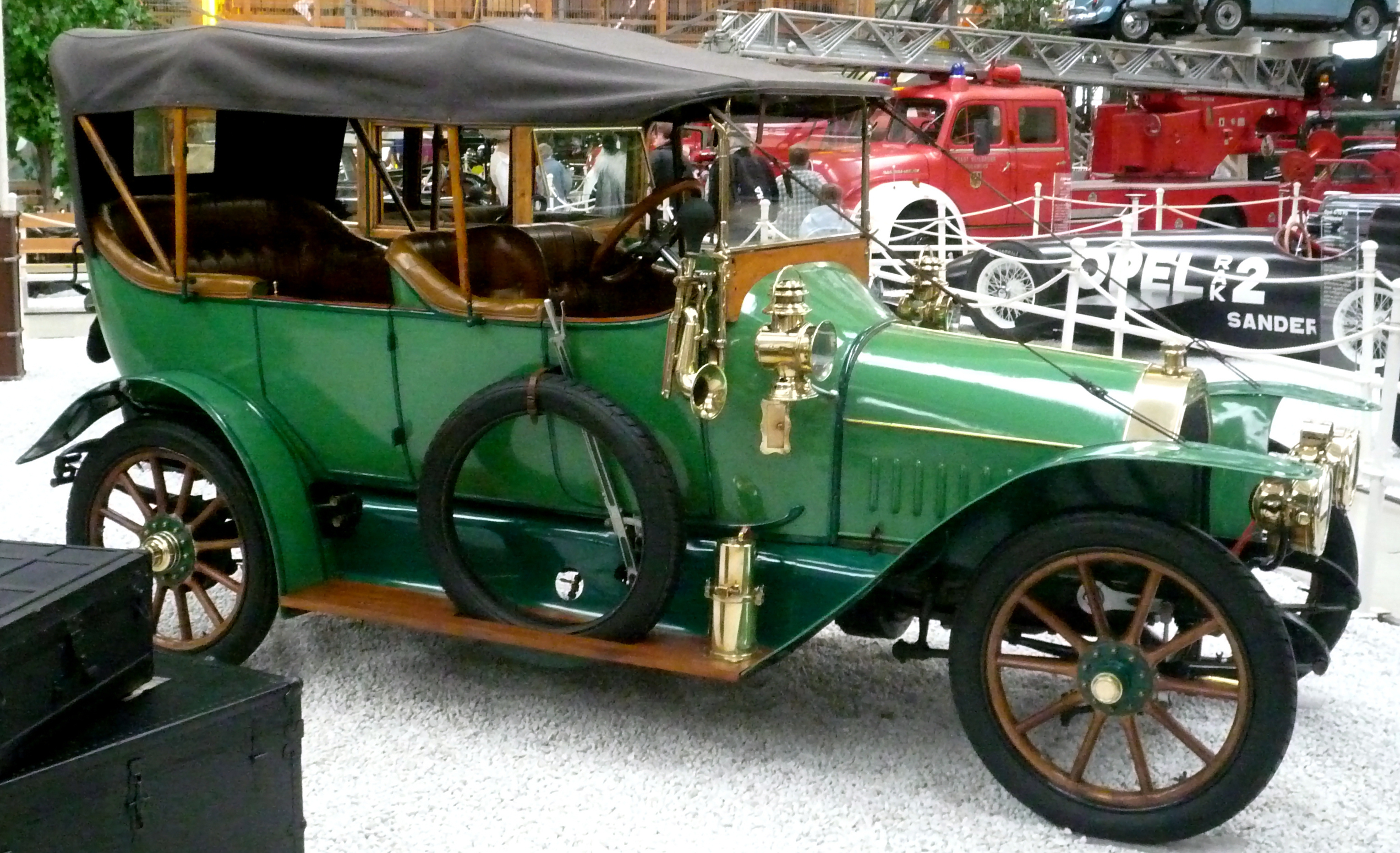 Peugeot 143 in the Technik-Museum Speyer